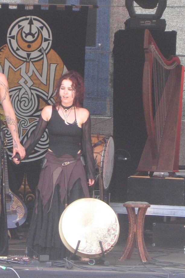 Jenny and Sic from Omnia at Anno Domini 1408 in Luxembourg city